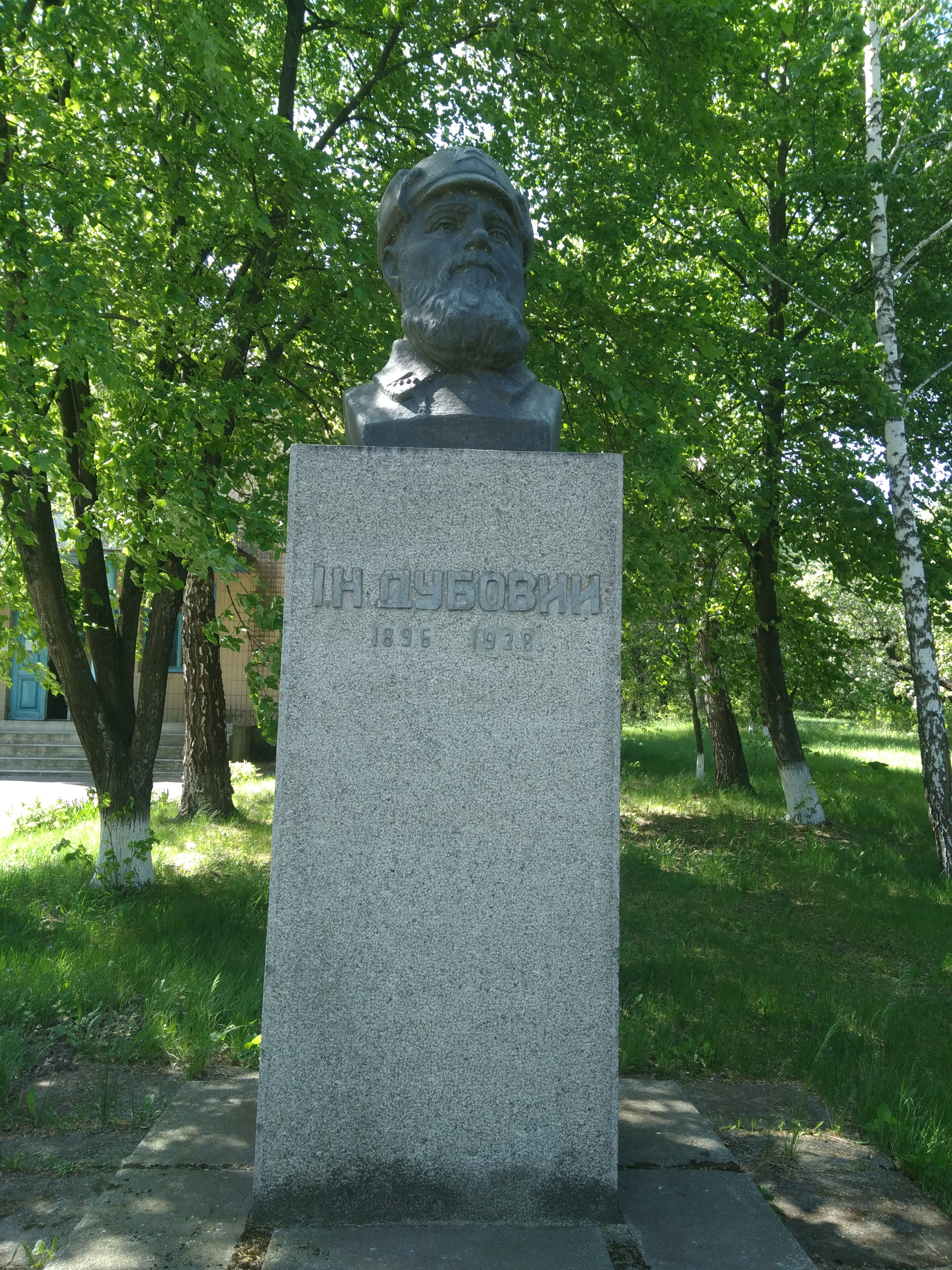 Novoselytsya (Chyhyryn Raion, Cherkasy Oblast, Ukraine). The monument to Dubovyj I.N.